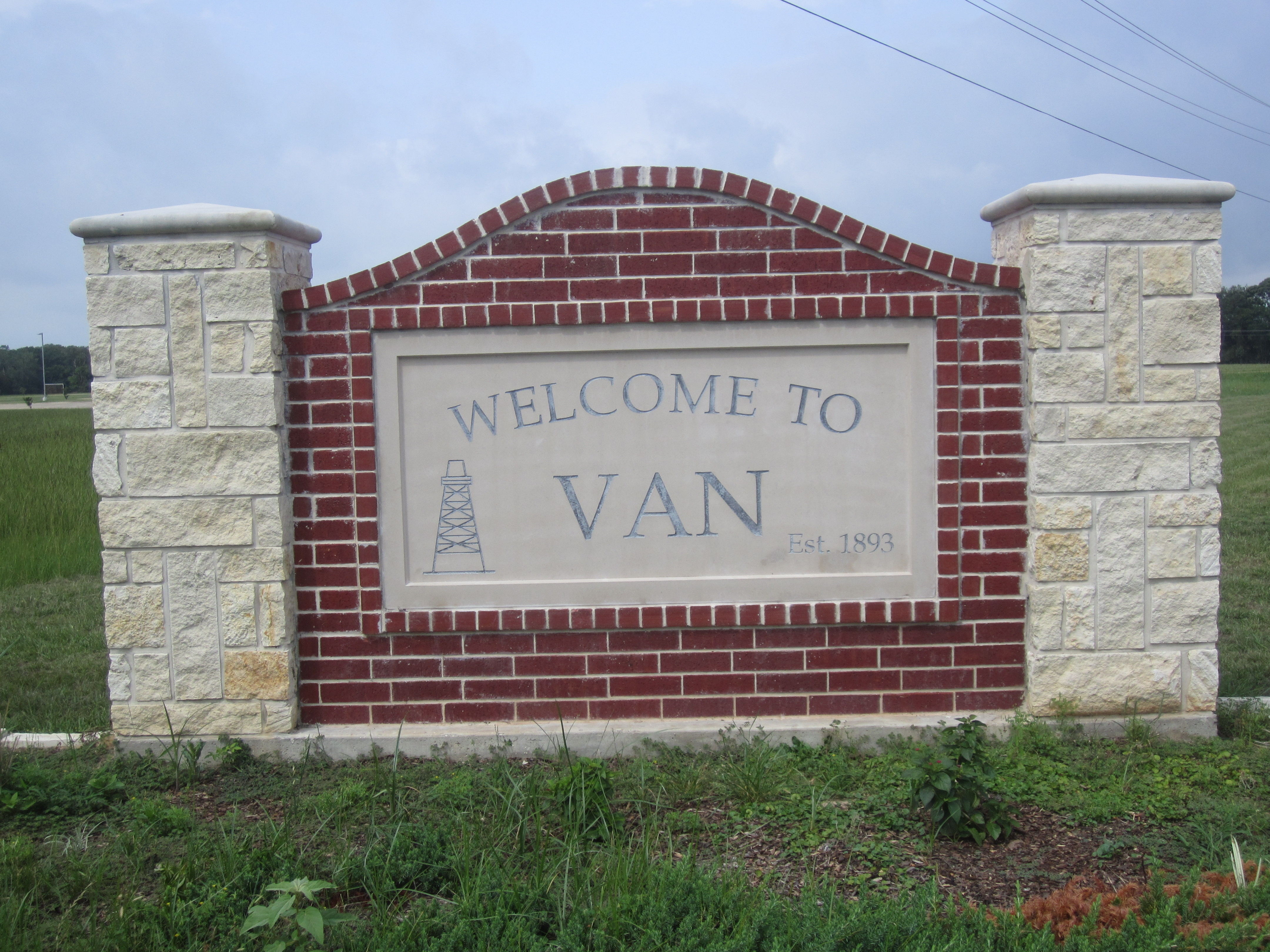 I took photo with Canon camera of Van, TX, welcome sign, 6-14-2012.